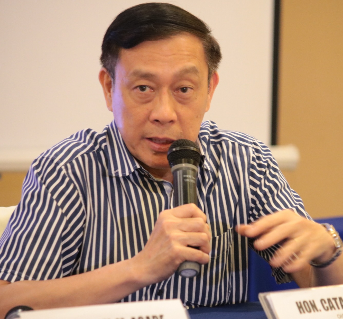 During the press conference on June 27, Department of Interior and Local Government (DILG) Secretary Catalino Cuy stresses that there are augmentations to Marawi from adjacent police offices as well as special action force. He says that such is substantial to support the AFP in its effort to clear Marawi from terrorist groups.(RTP/PIA10)